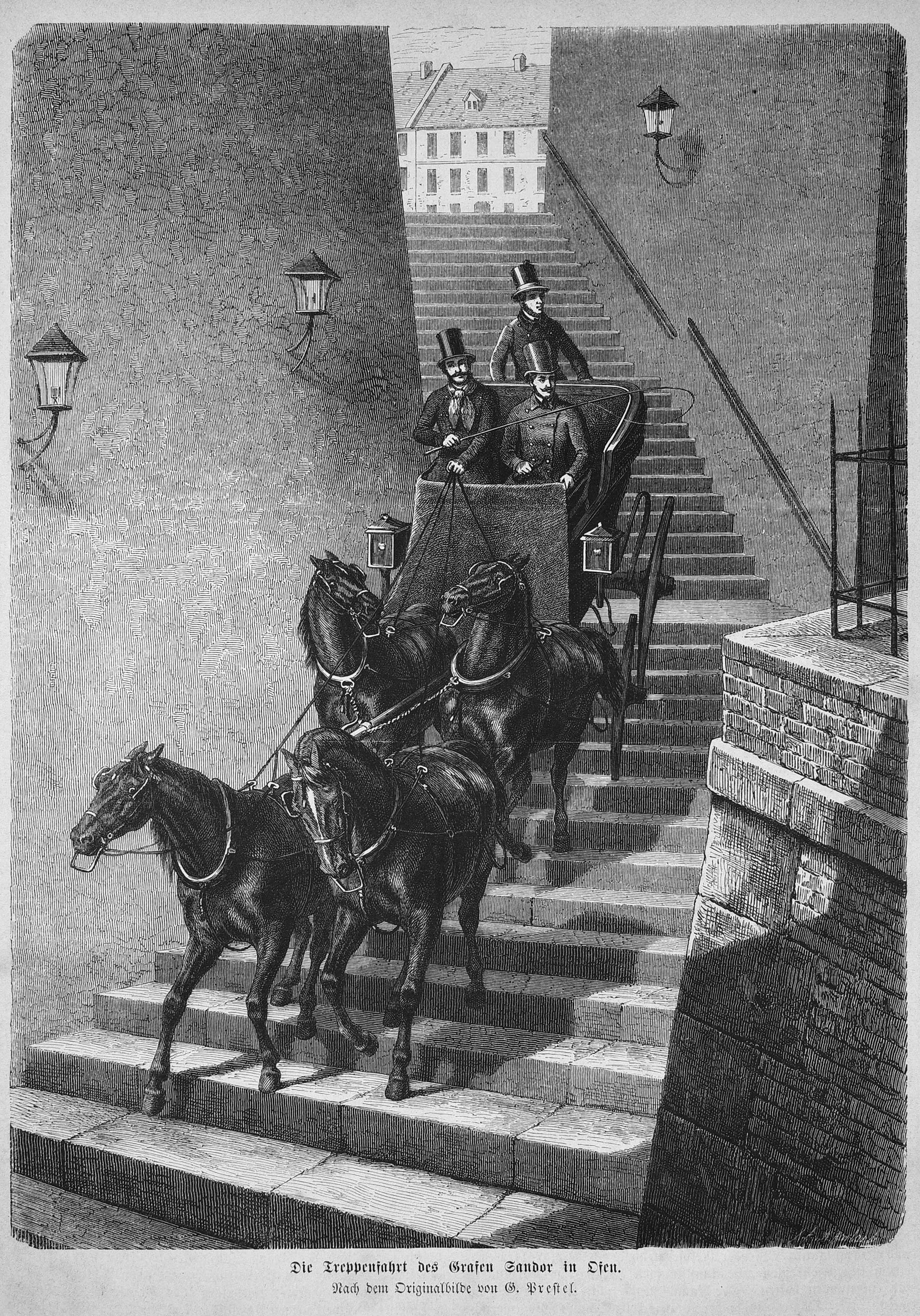 Image from page 491 of journal Die Gartenlaube, 1872.